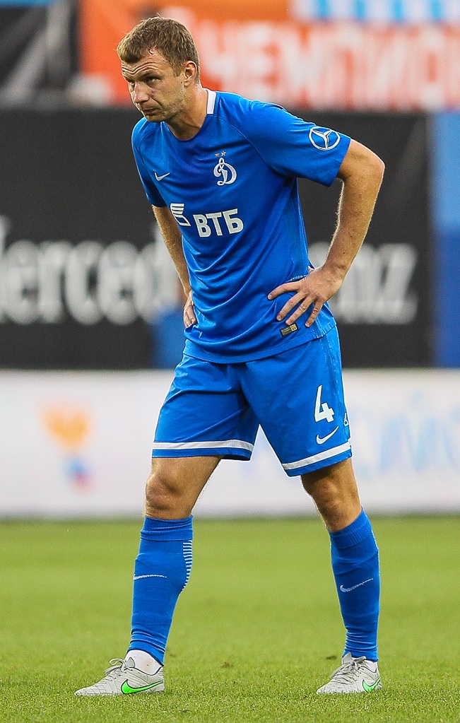 Vladimir Rykov in action for FC Dynamo Moscow against FC Luch-Energiya Vladivostok.